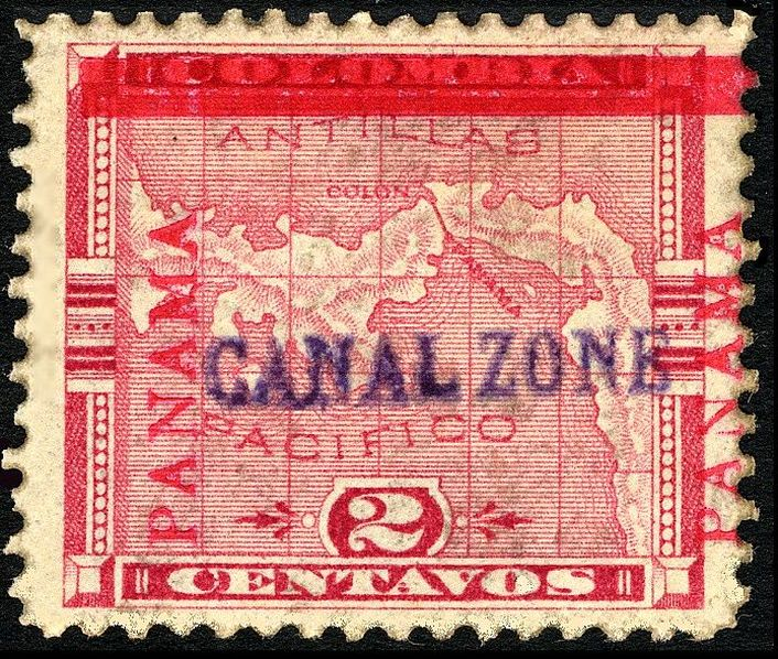 Canal Zone postage, over printed on Panama postage